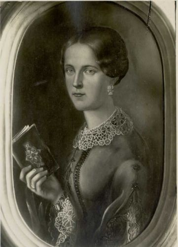 Josipina Turnograjska (1833-1854)